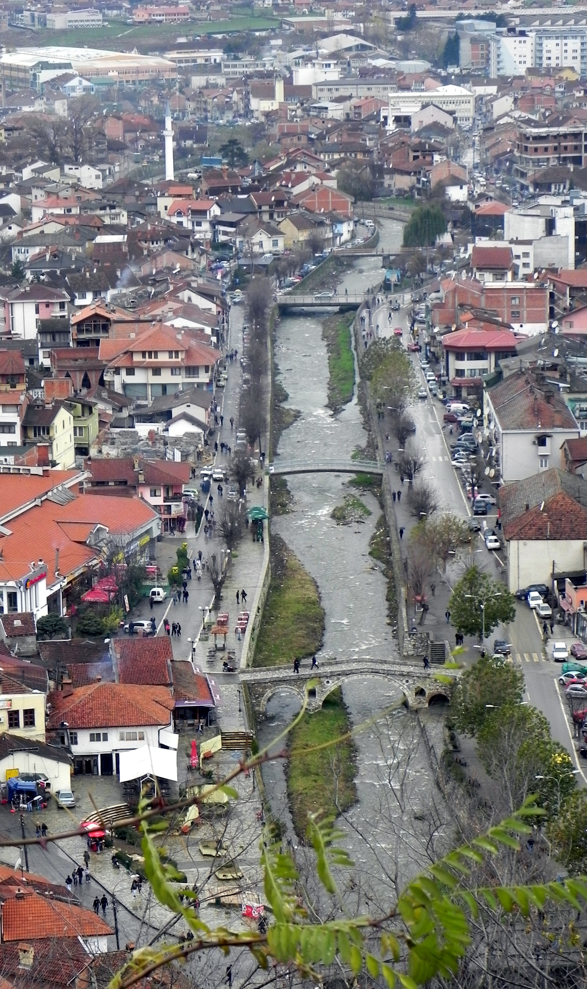 Lumëbardhi-river-Prizren-Kosovë